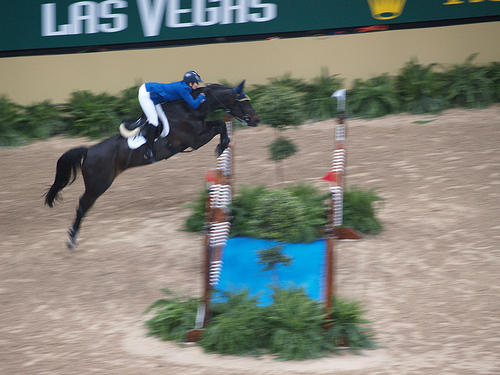 Judy Ann Melchior representing Belgium riding Grande Dame Z (Oldenburg, Grannus x Lola by Ramino)